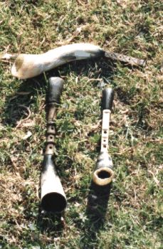 Albogues.